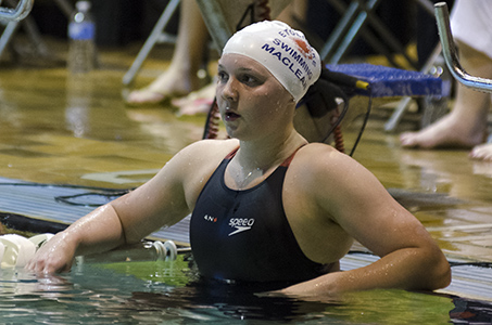 Photo of swimmer Brittany MacLean, taken at the UBC Aquatic Centre in Vancouver, B.C., Canada.